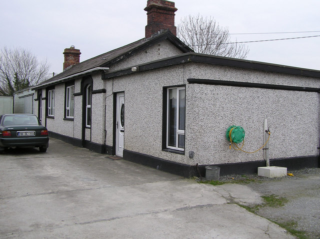 St Johnston Railway Station. It has been converted to a dwelling house